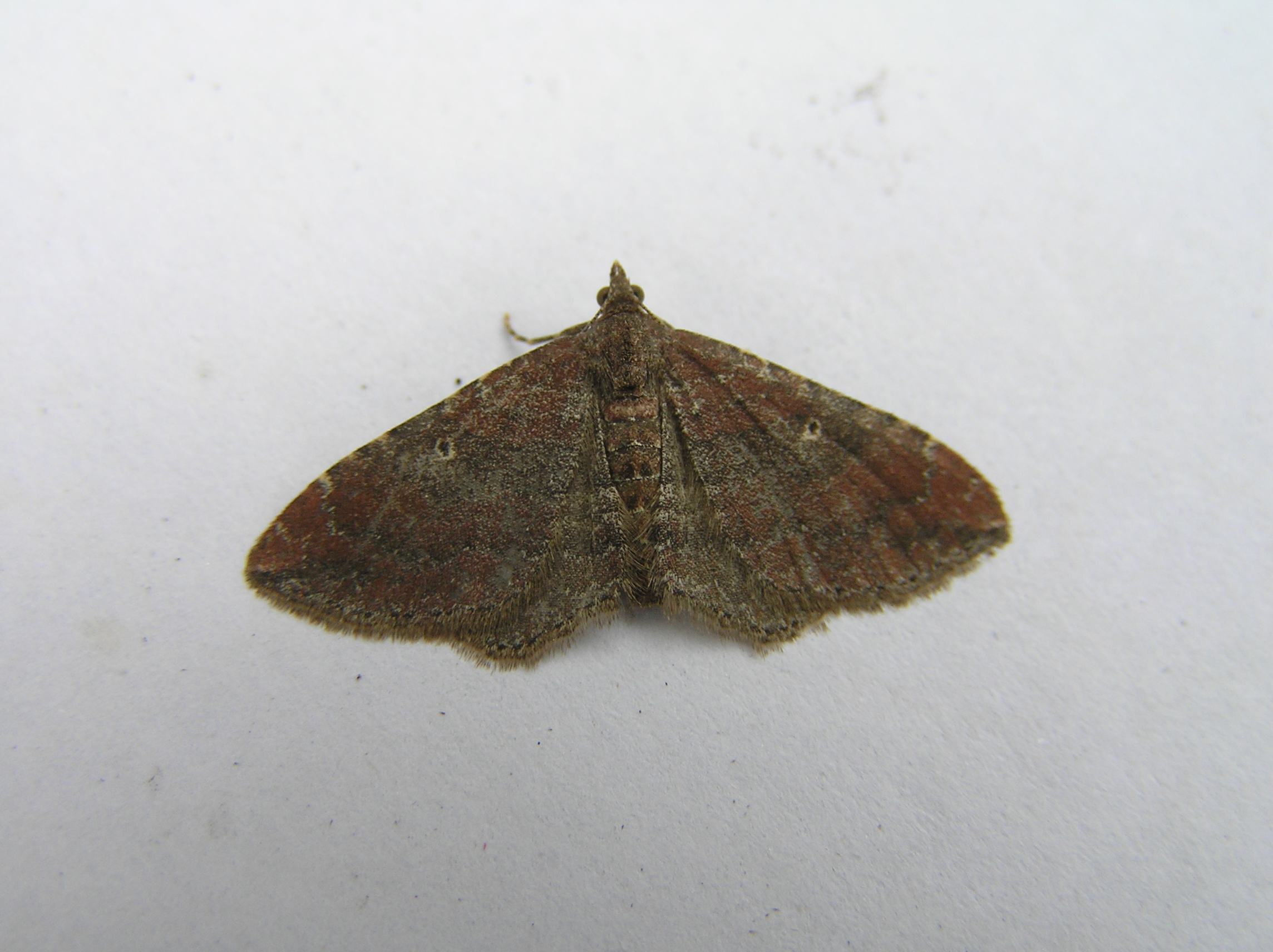 Orthonama obstipata (Fabricius, 1794) female (Zwaakse Weel, the Netherlands)